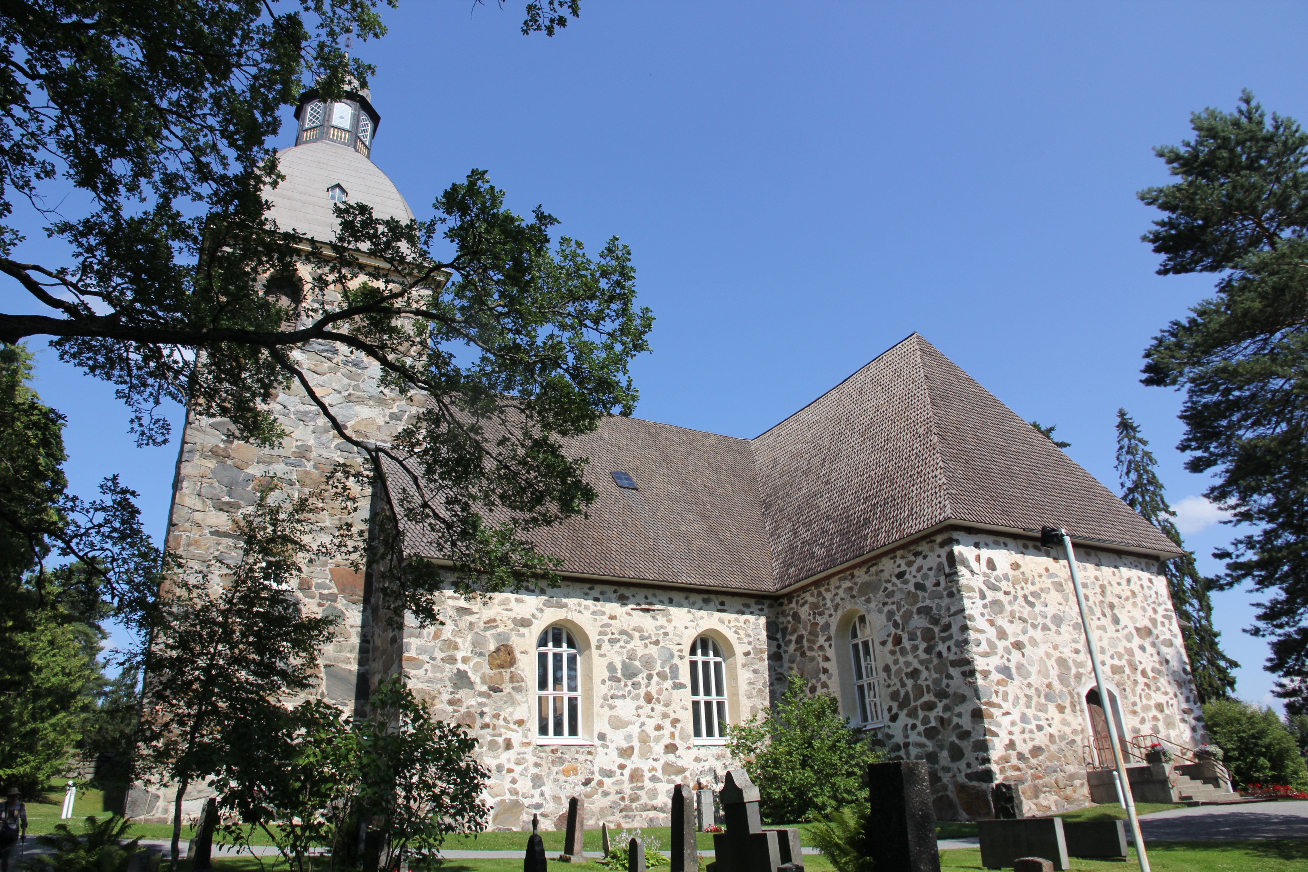 Kangasala Church.